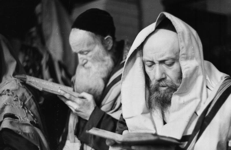 Warsaw Ghetto: Praying Jews - scene created for German propaganda move created in May of 1942.